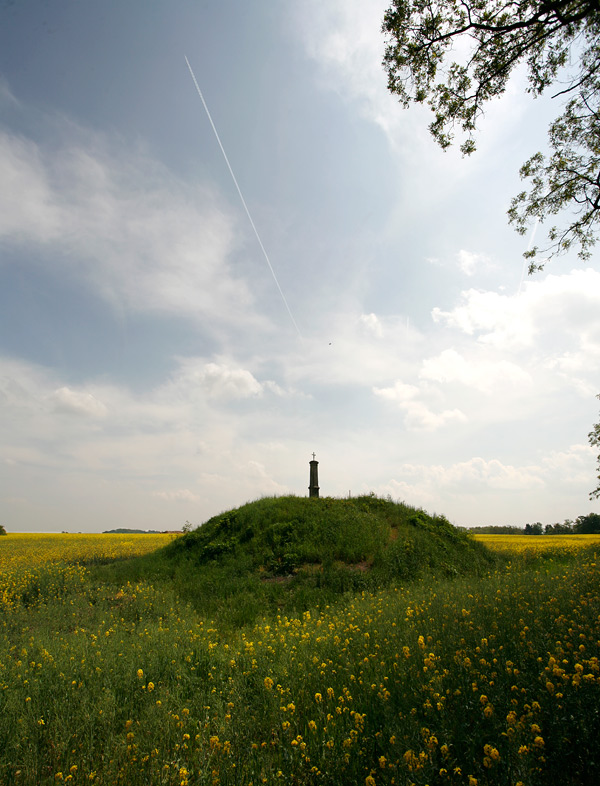 Tumulus in village Chotoun